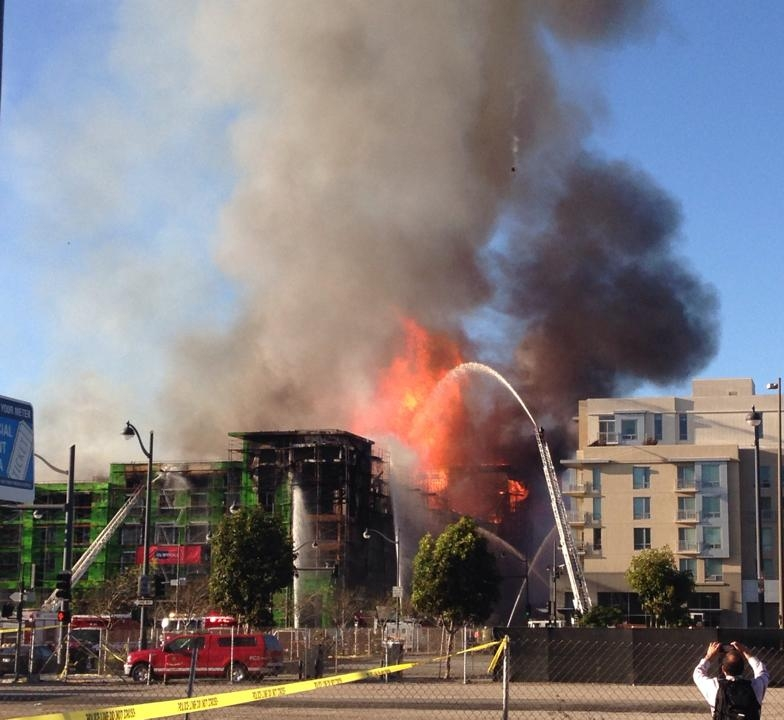 The MB360 apartment complex on fire — in China Basin, San Francisco.